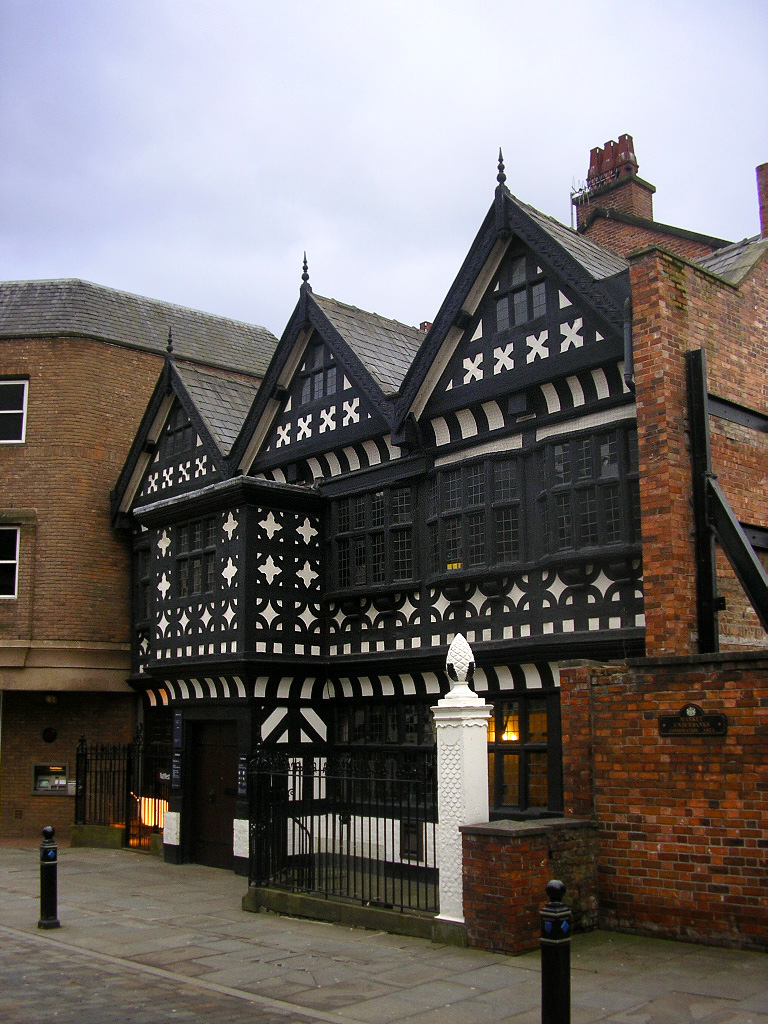 Photograph of Underbank Hall in Stockport, England, a 16th Century town house.